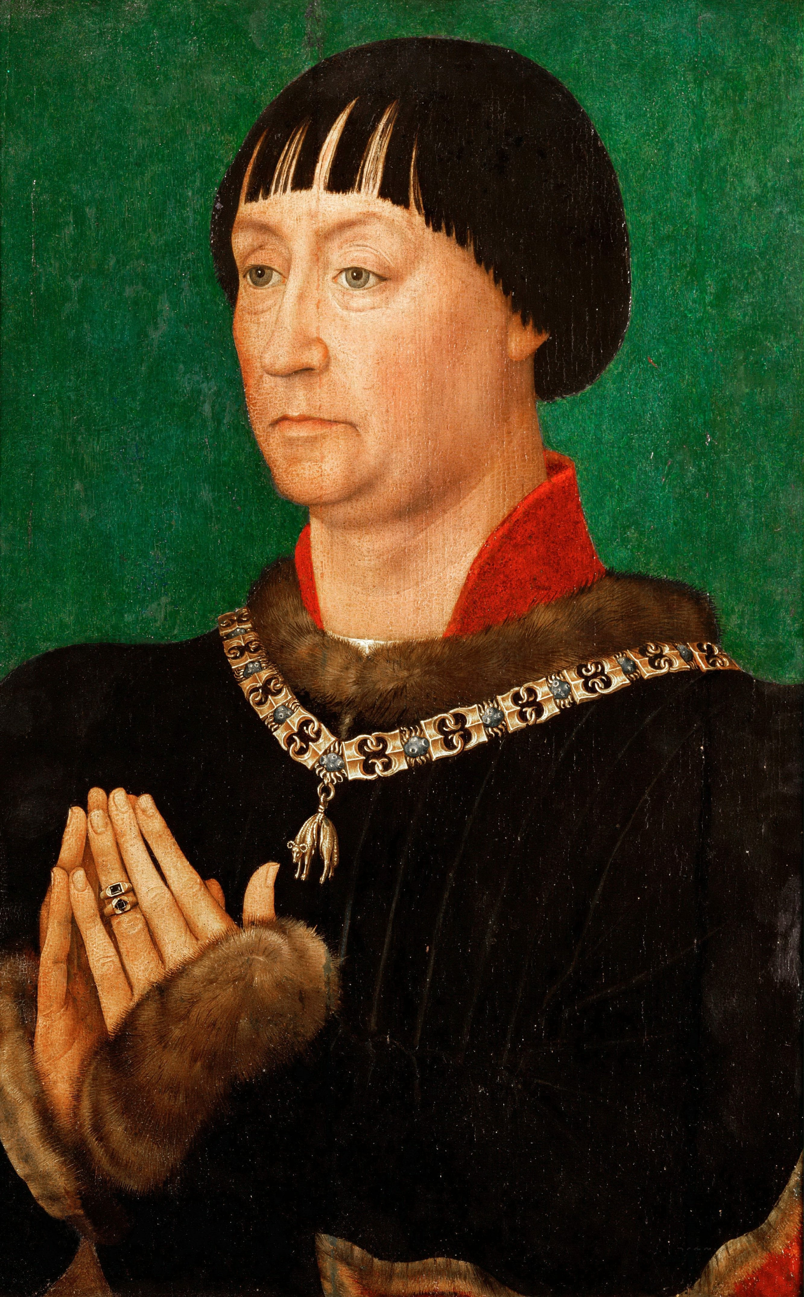 Note the flints and steels (the private emblem of Philip the Good of Burgundy, the order's founder) on the chain holding the duke's Order of the Golden Fleece.